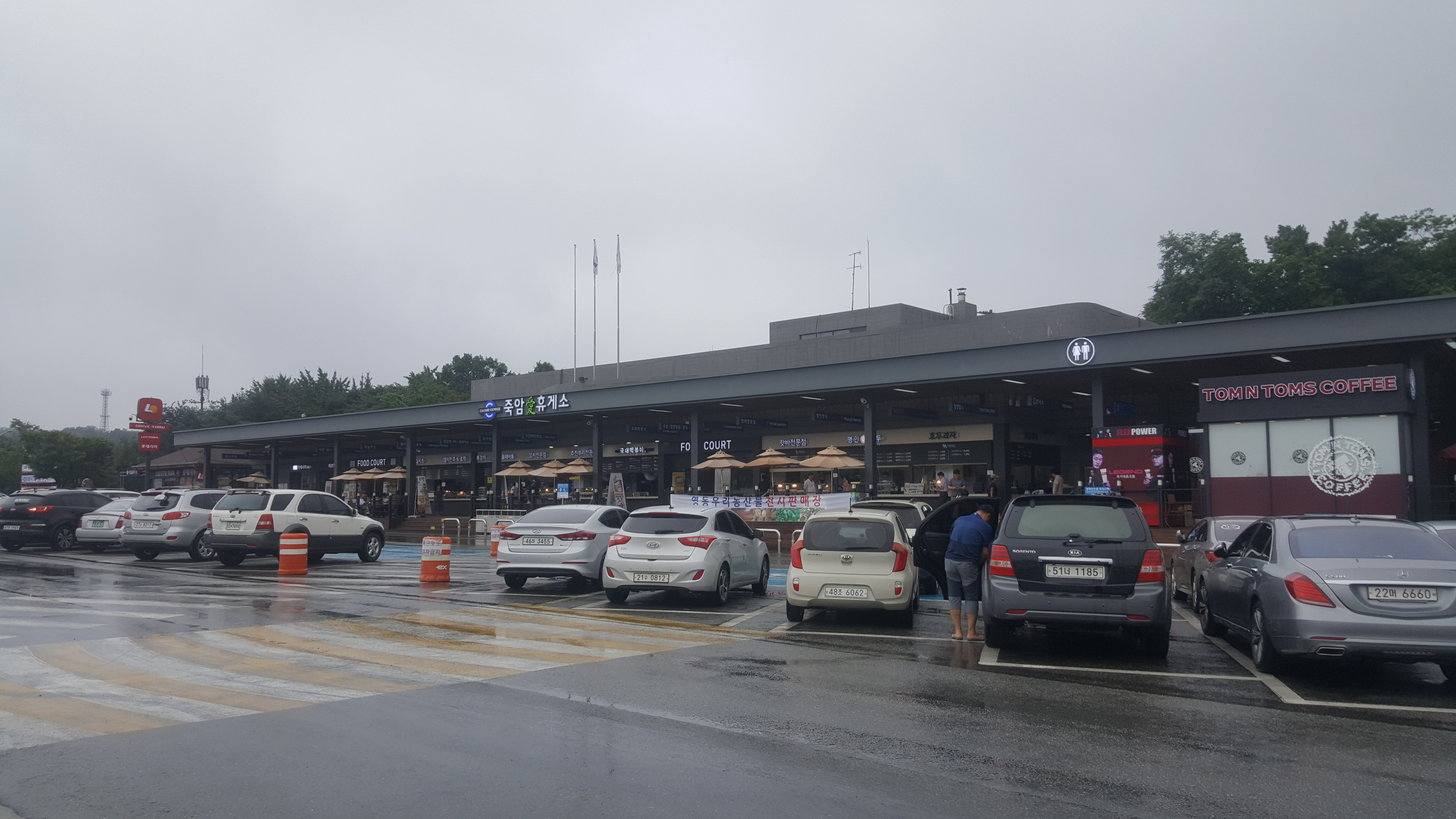 Gyeongbu Expressway Jugam Service Area (To Busan)